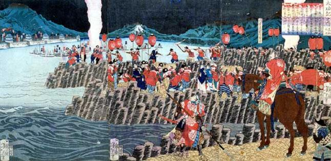 Water siege of Takamatsu castle. Nishiki-e by Tsukioka Yoshitoshi.